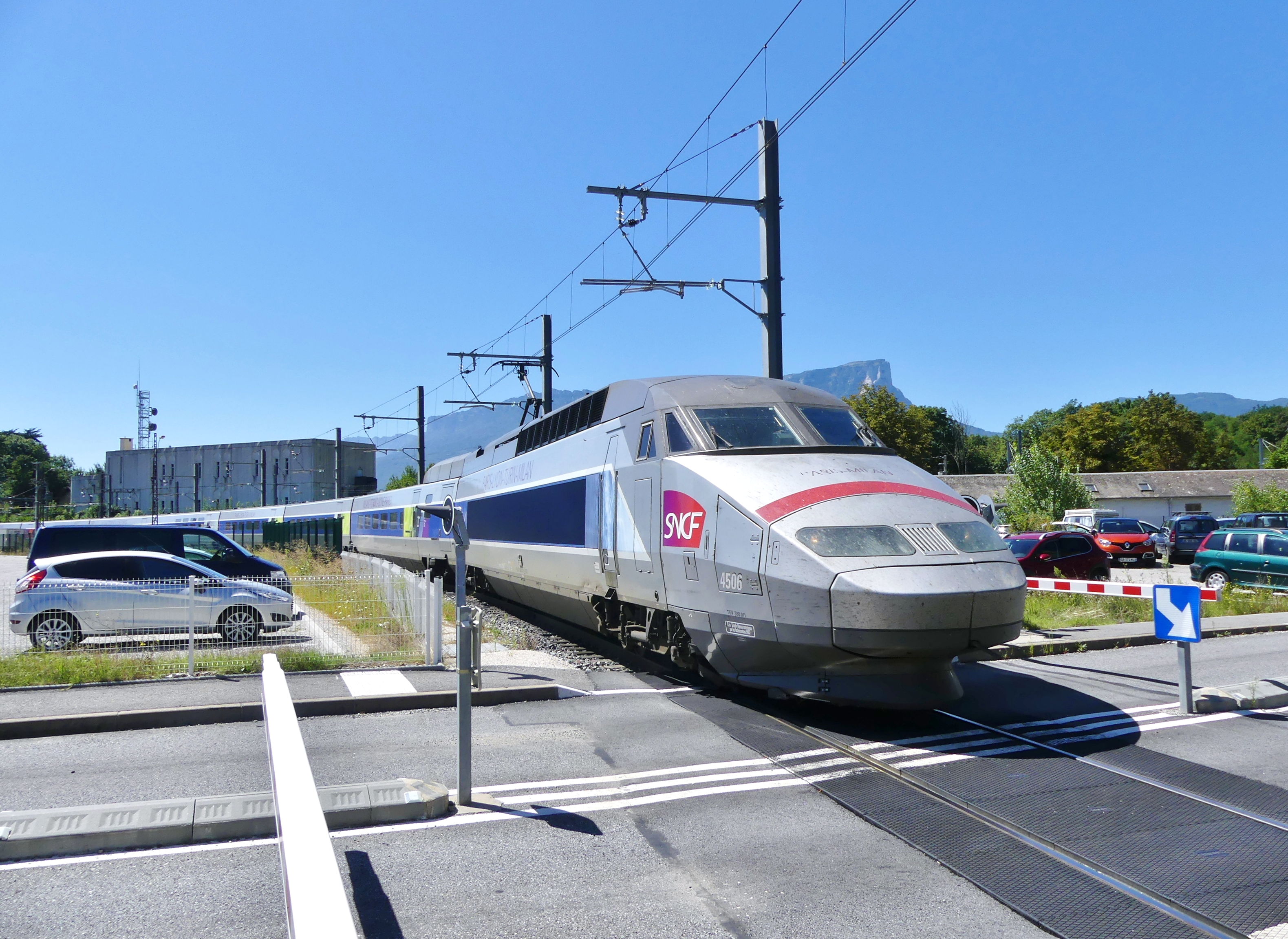 Sight of a French TGV on international service n° 9247 from Paris to Milano (Italy), only daily train to take at 30 km.h the direct Montmélian junction from Grenoble to the Maurienne valley, in Savoie.